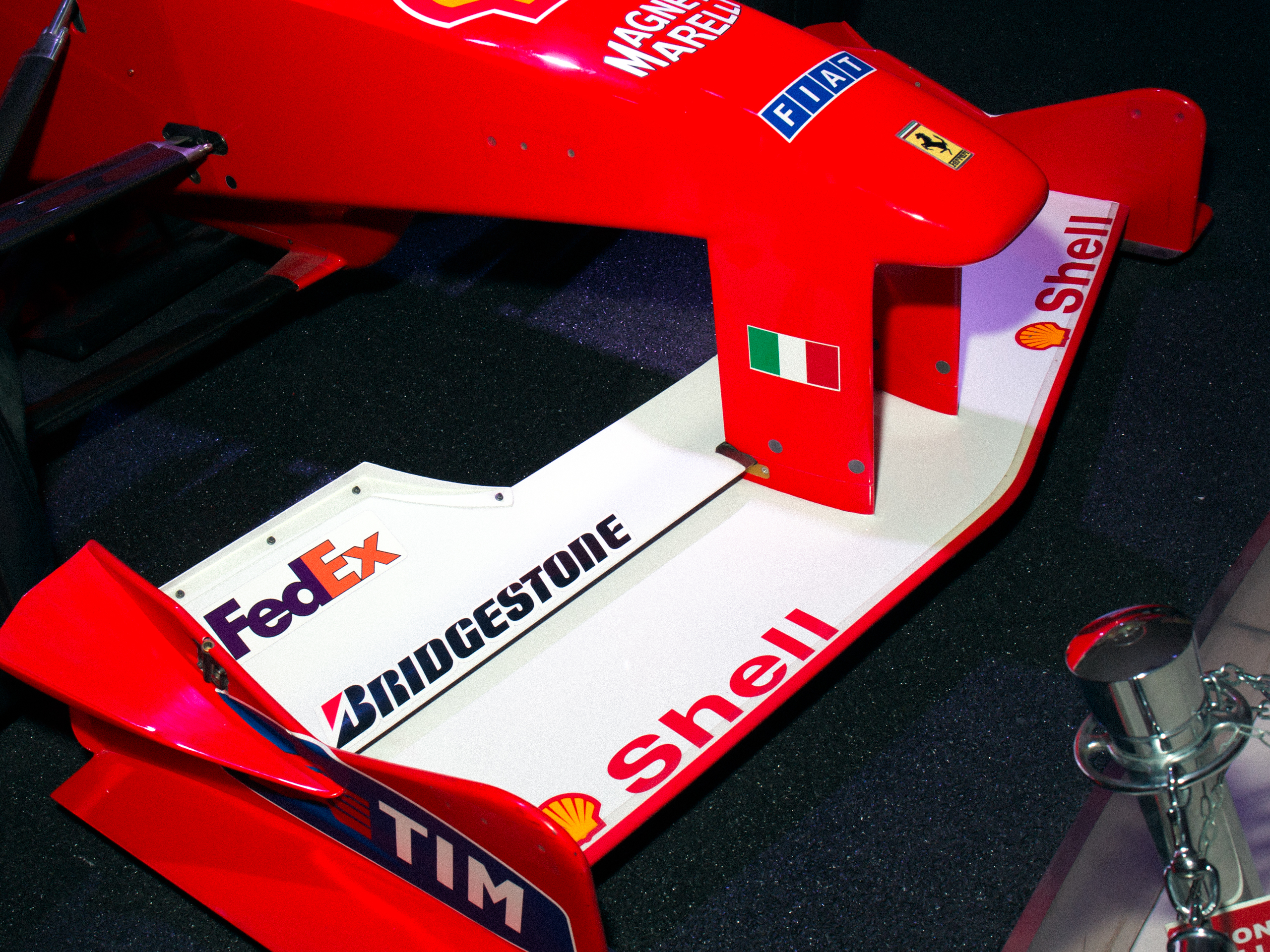 Ferrari F1-2000's front wing